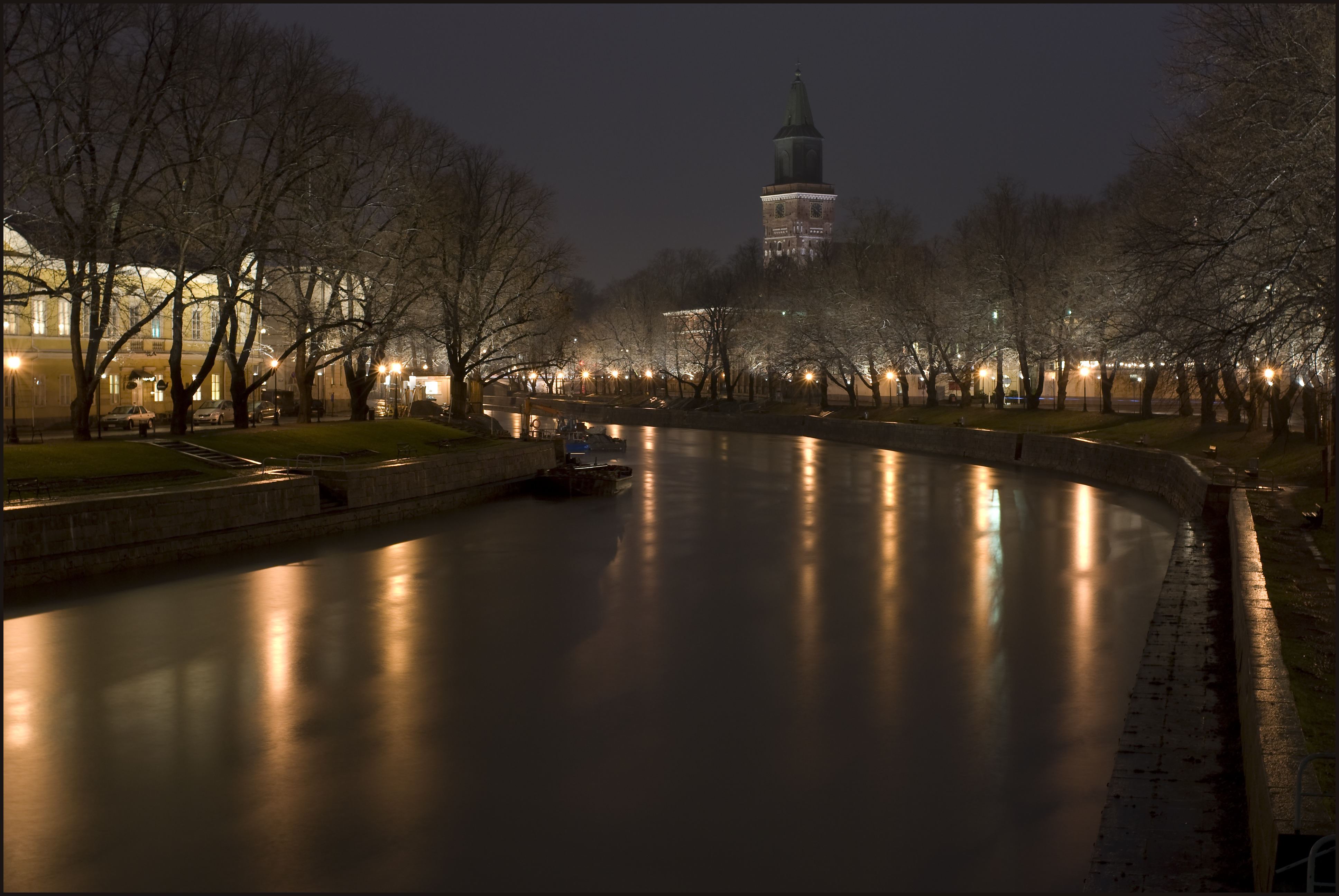 Frozen Aurajoki, from Aurasilta to the Cathedral. The site of the Kirjastosilta before the construction of that bridge.